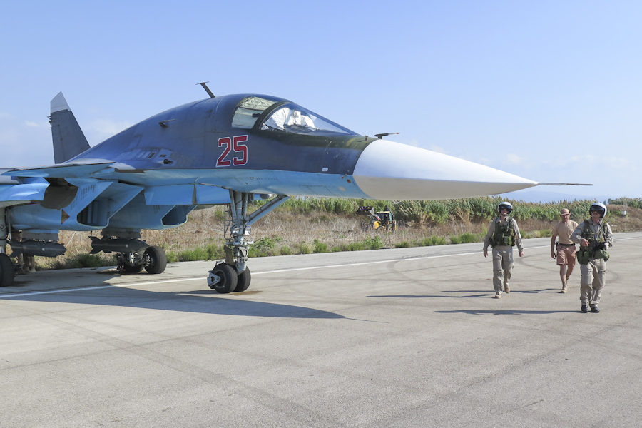 Sukhoi Su-34 at Latakia